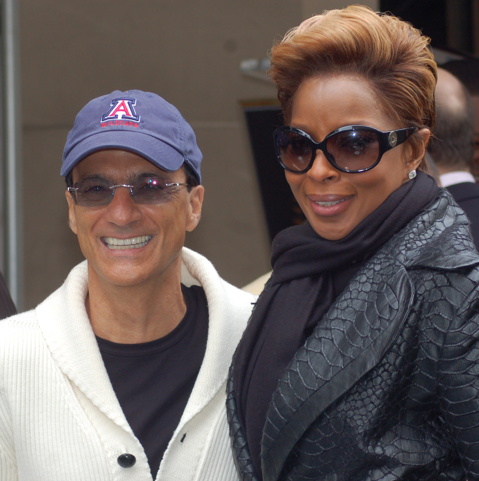 Jimmy Iovine and Mary J. Blige at a ceremony for Doug Morris to receive a star on the Hollywood Walk of Fame.